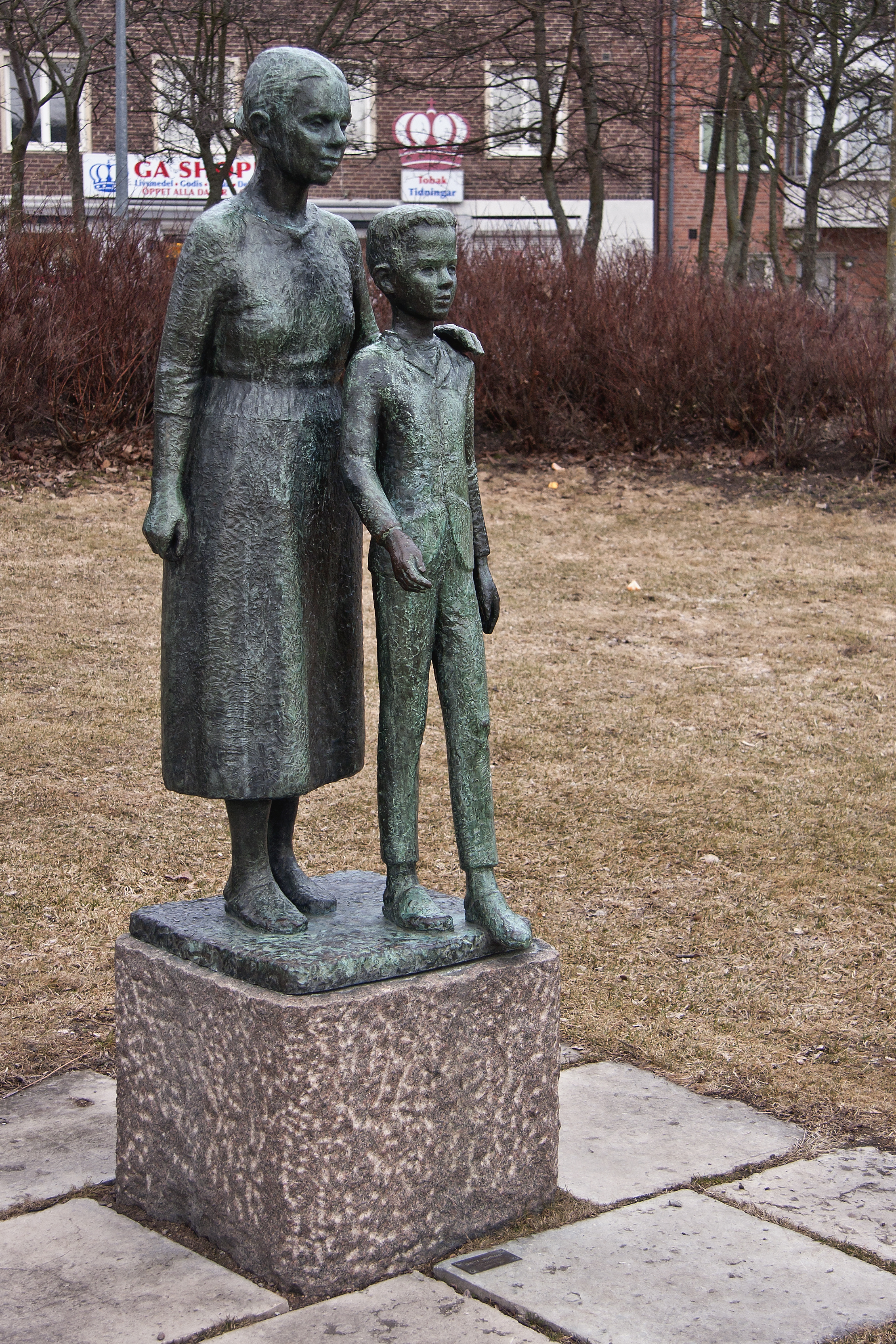 Statue Mor och son ("Mother and Son") from 1957 by Britta Nehrman at Furutorpsplatsen in Helsingborg, Sweden.